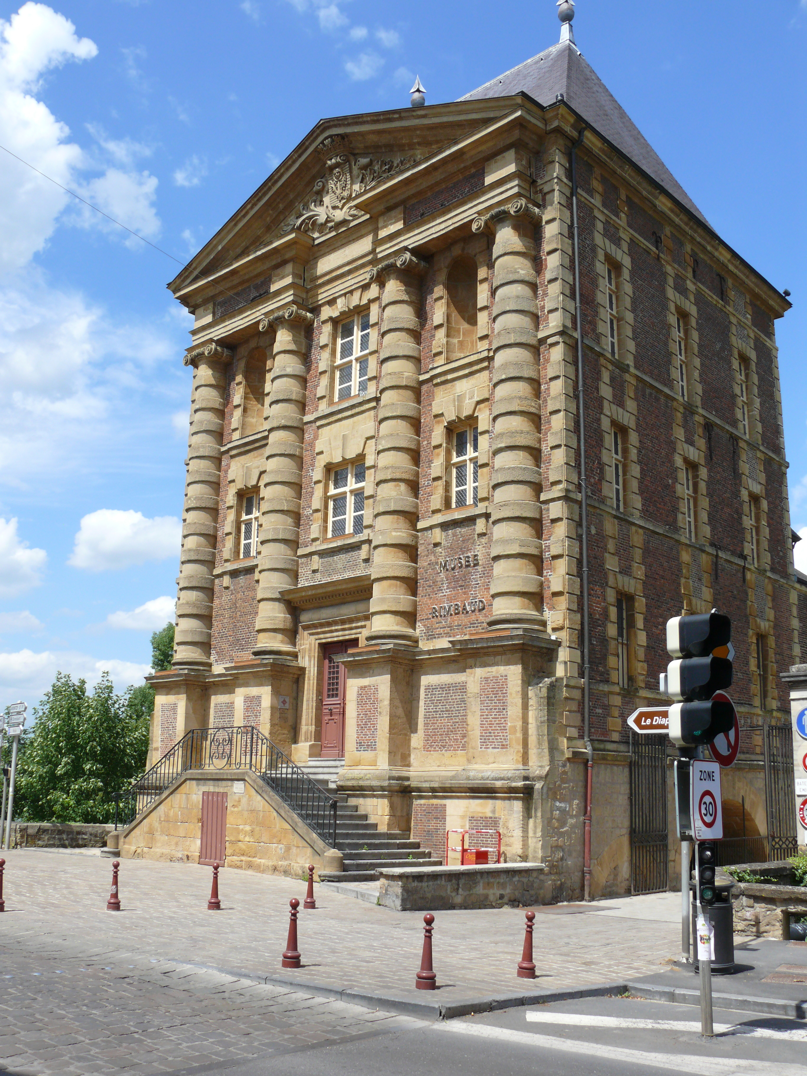 Musée Rimbaud, Charleville-Mezières. Arthur Rimbaud (1854–1891) was a French poet, born in Charleville. The Musée Rimbaud (Rimbaud museum) is located in the old water mill (Le Vieux Moulin) to the north of the town.